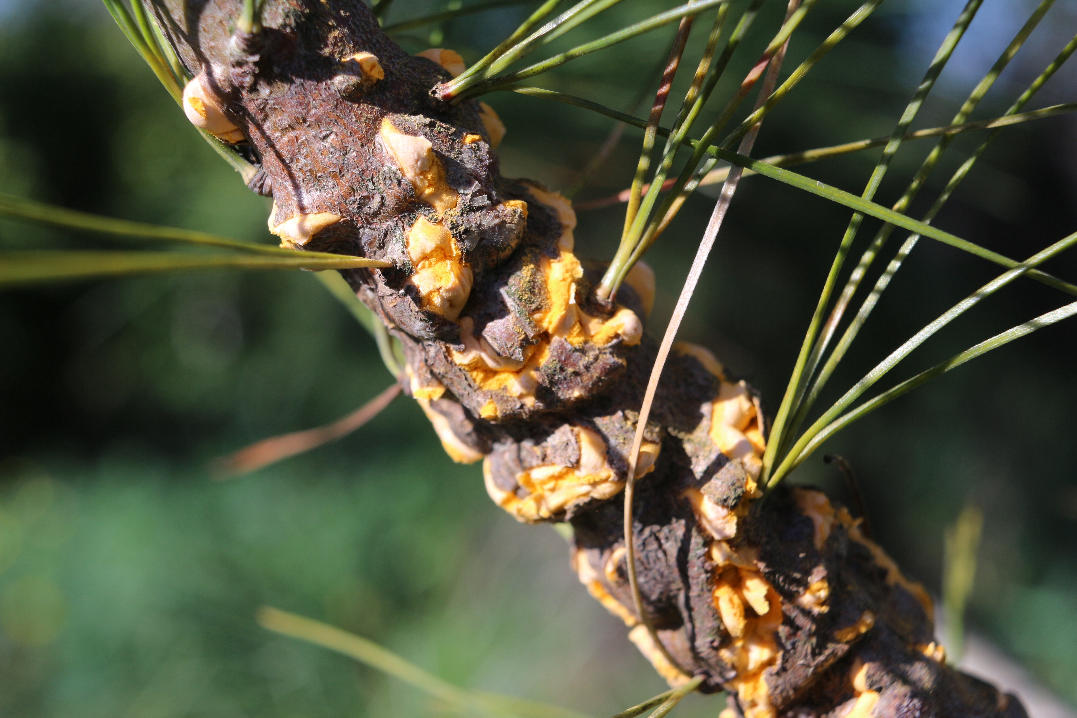 Cronartium ribicola on a pine tree Pinus strobus (white pine blister rust)